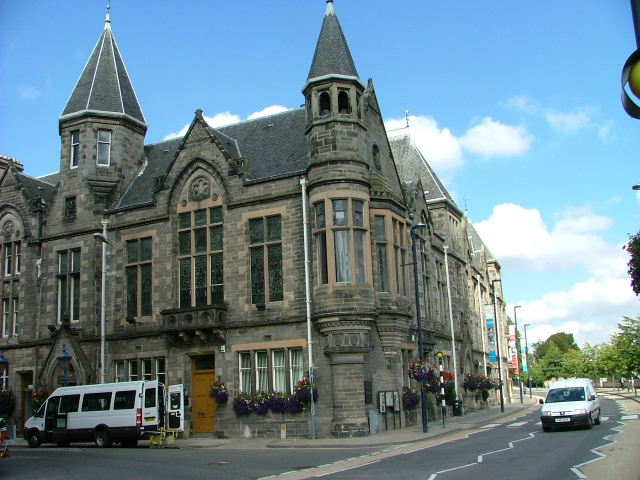 Perth and Kinross Council offices